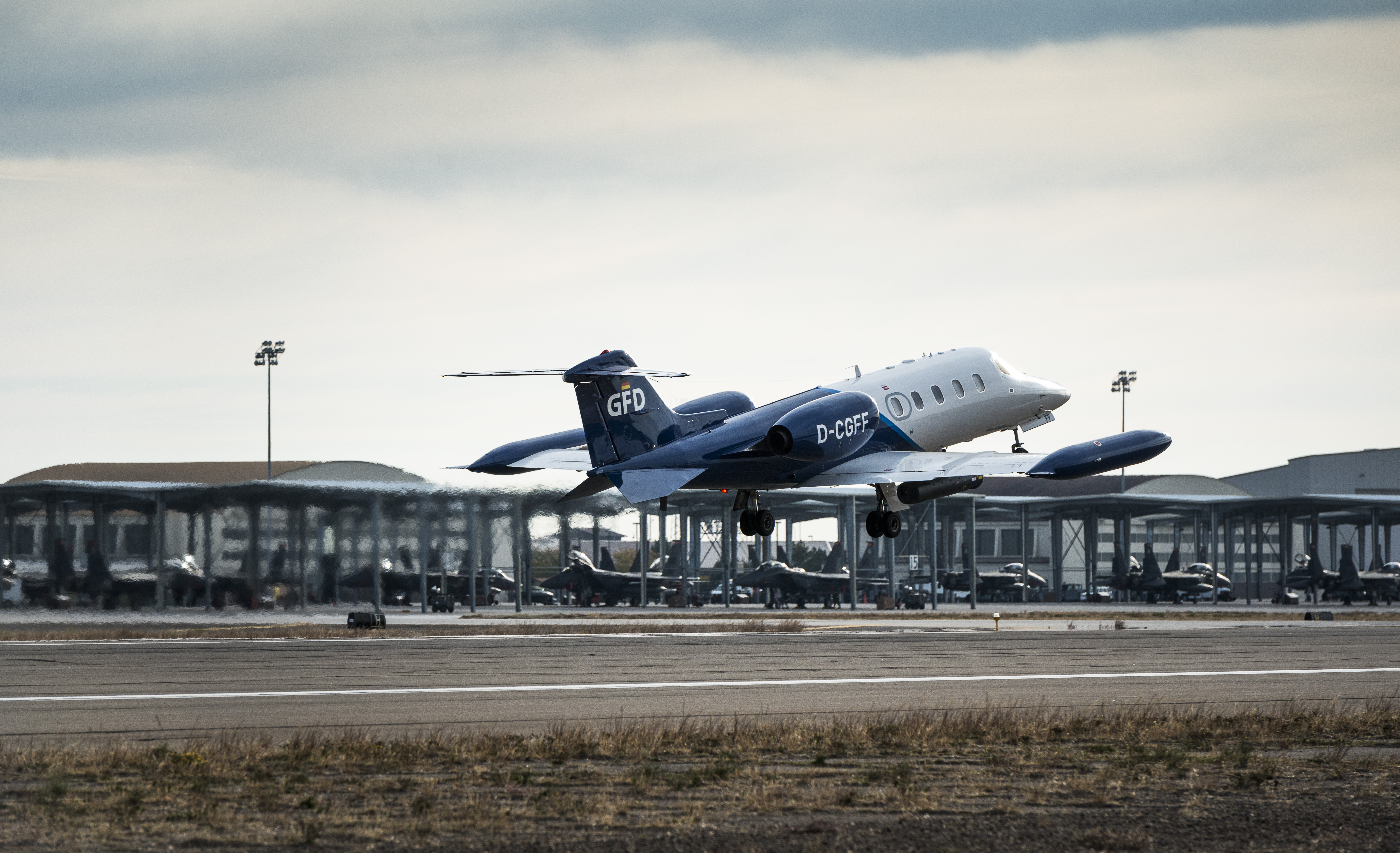 A LearJet operated by Gesellschaft für Flugzieldarstellung (GFD) takes off at Mountain Home Air Force Base, Idaho, Oct. 16, 2013. The flight was part of Mountain Roundup, a massive multi-service, multi-national exercise. (U.S. Air Force photo by Tech. Sgt. Samuel Morse/Released) Unit: 366th Fighter Wing